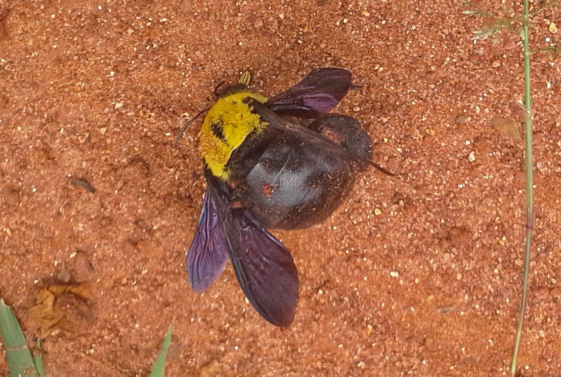 A Dead carpenter bee (Xylocopa pubescens) spotted at Visakhapatnam Zoo Park